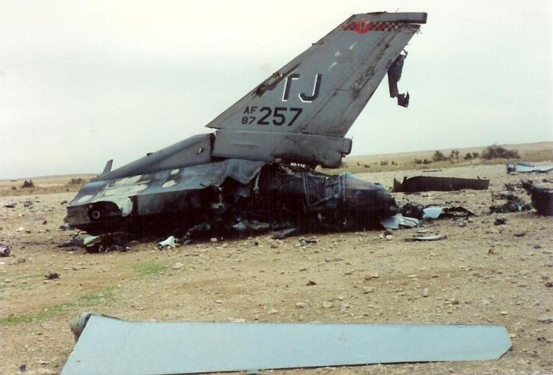 Remains of F-16C #87-0257 from the 614th Tactical Fighter Squadron 'Lucky Devils', shot down over Iraq during Operation Desert Storm. The wreckage was discovered by US forces during Desert Storm and the canopy was found by US forces during Operation Iraqi Freedom. The canopy and photos are now part of a display at the Pima Air and Space Museum.